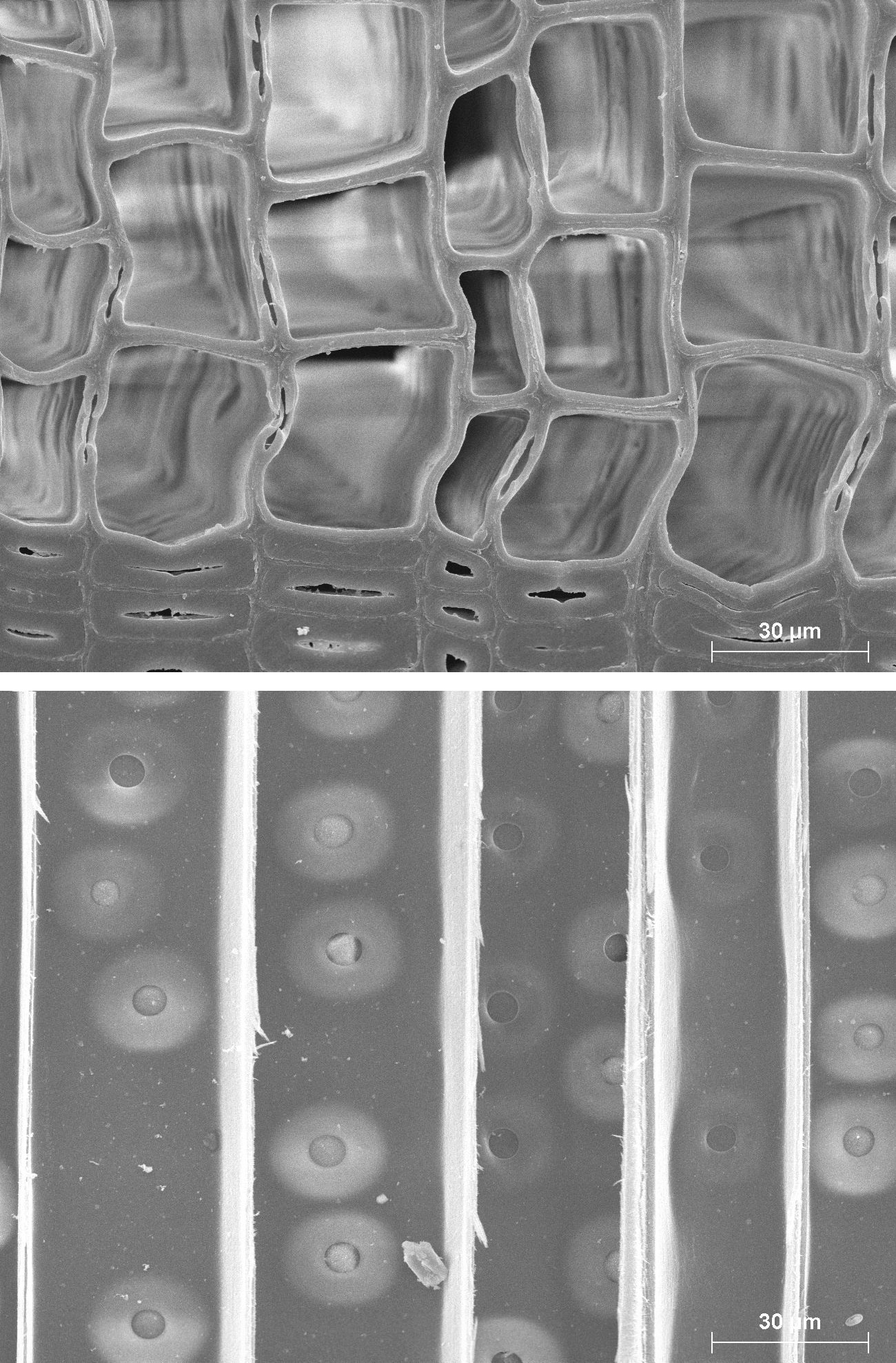 Cross section (top) and radial section (bottom) of tracheids with numerous bordered pits (Picea abies)